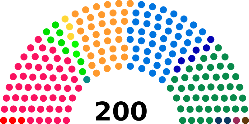 Seats diagramme of Swiss National Council (1999)